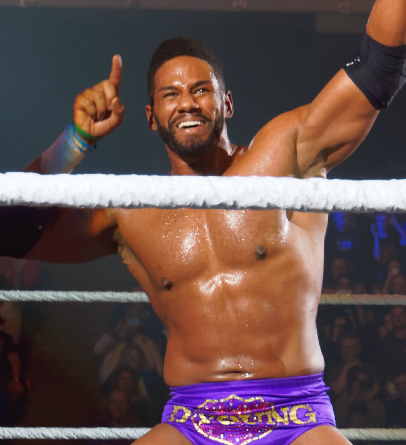 The Prime Time Players and Sin Cara in April 2015, Sin Cara and Titus cropped from photo.